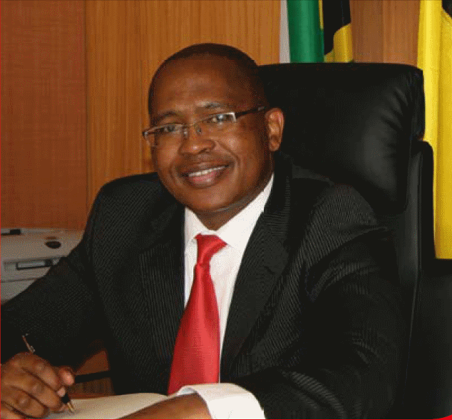 South African Ambassador to Belgium, Luxembourg & to the European Union